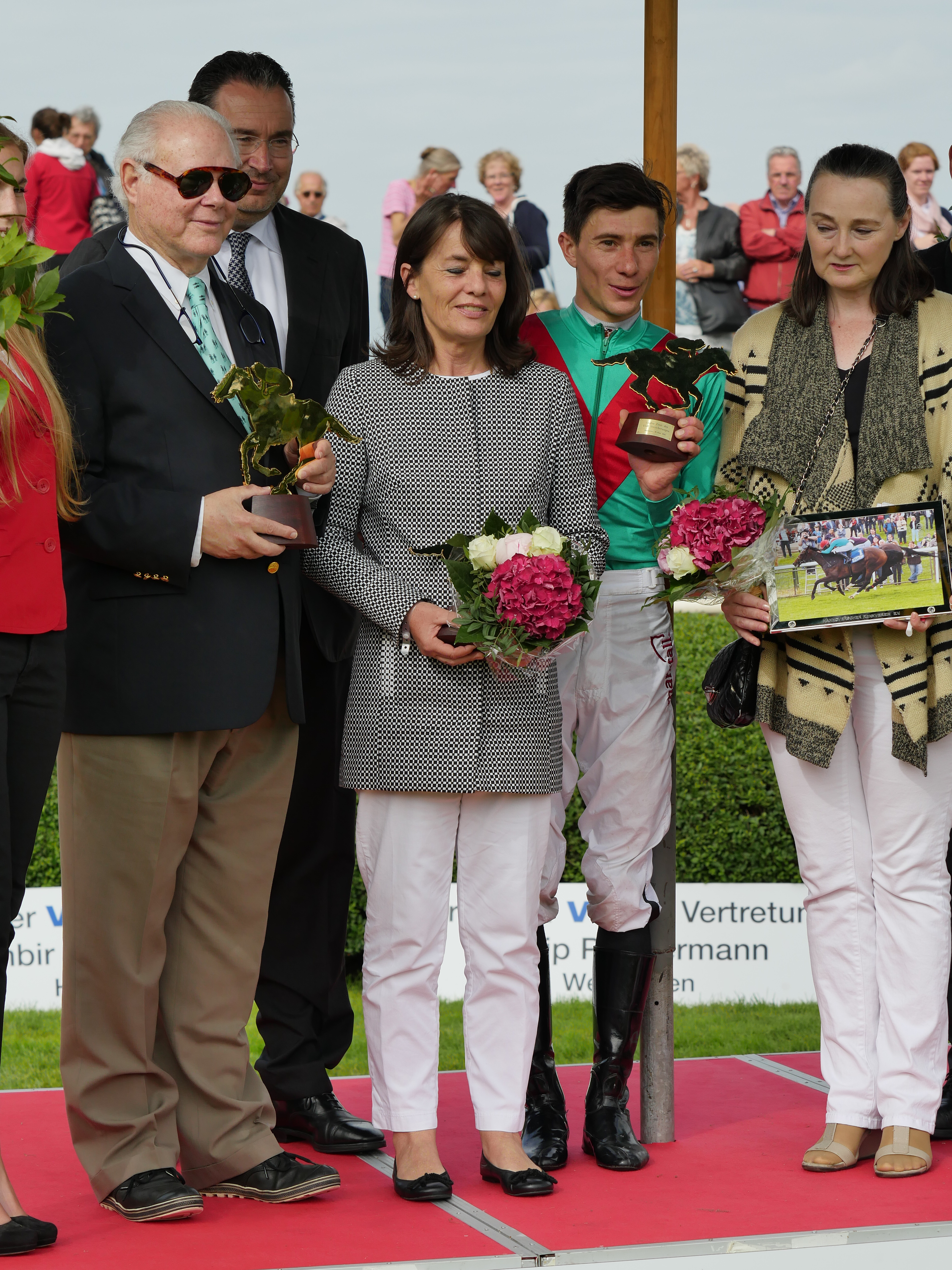 Winner ceremony at the Neue Bult race track, Hanover, Germany From left to right: Barry Irwin, Race club president Gregor Baum (in the background), Susanne Wöhler (wife of Andreas Wöhler), Jockey Michael Cadeddu, Kathleen Irwin